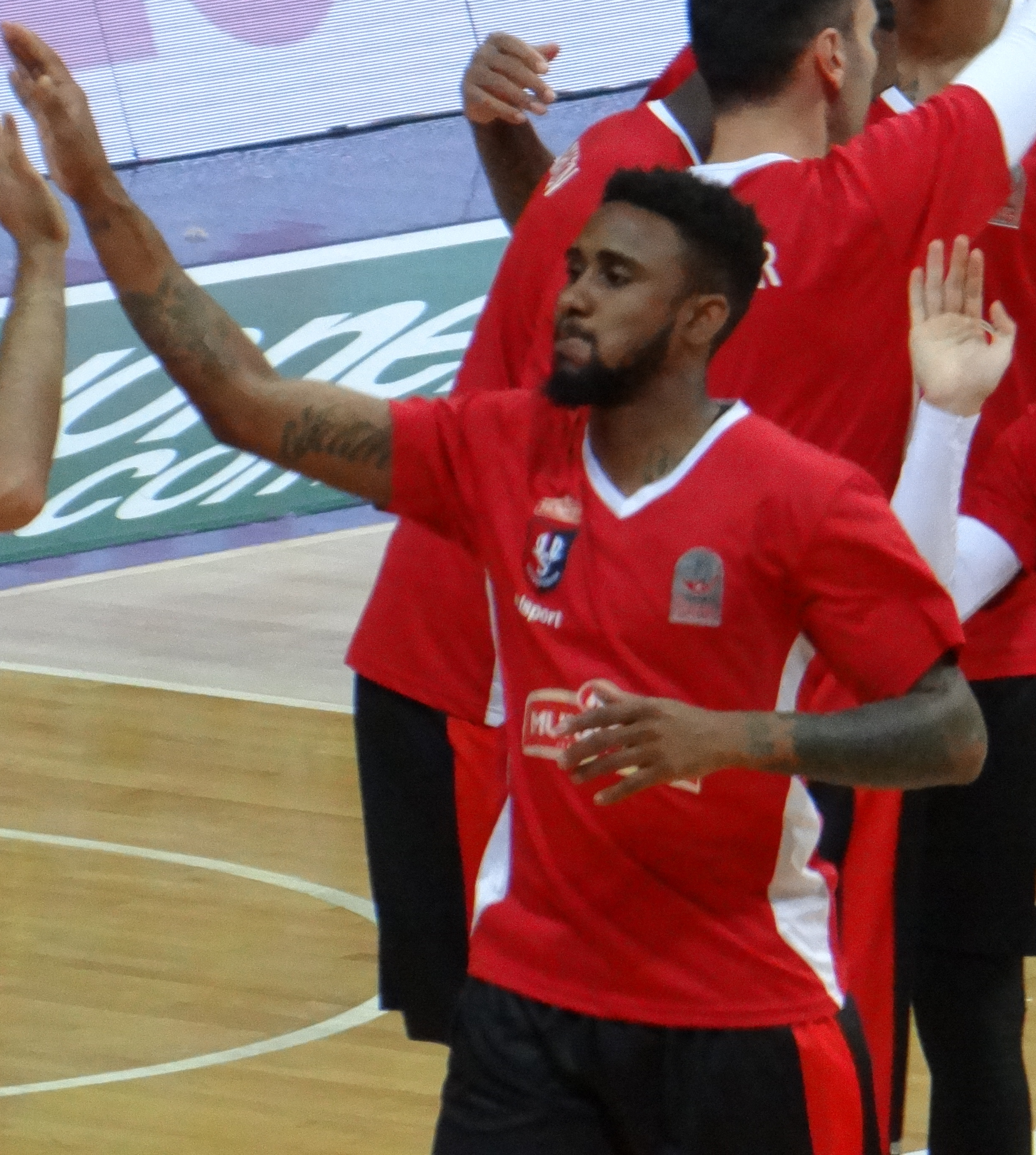 Ian Miller 44 & Süleyman Yavaş 64 Uşak Sportif 20171224